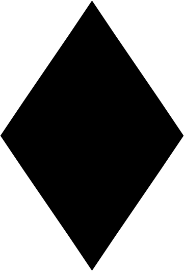 Flits sail emblem